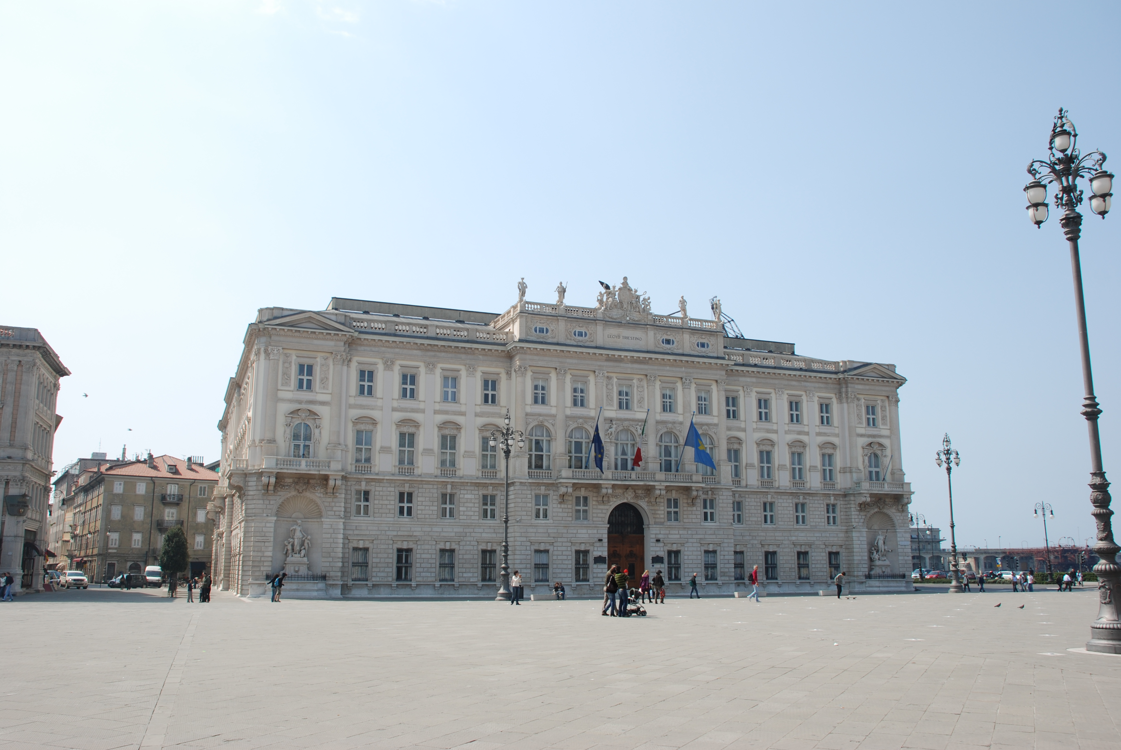 Building Lloyd Triestino in Trieste